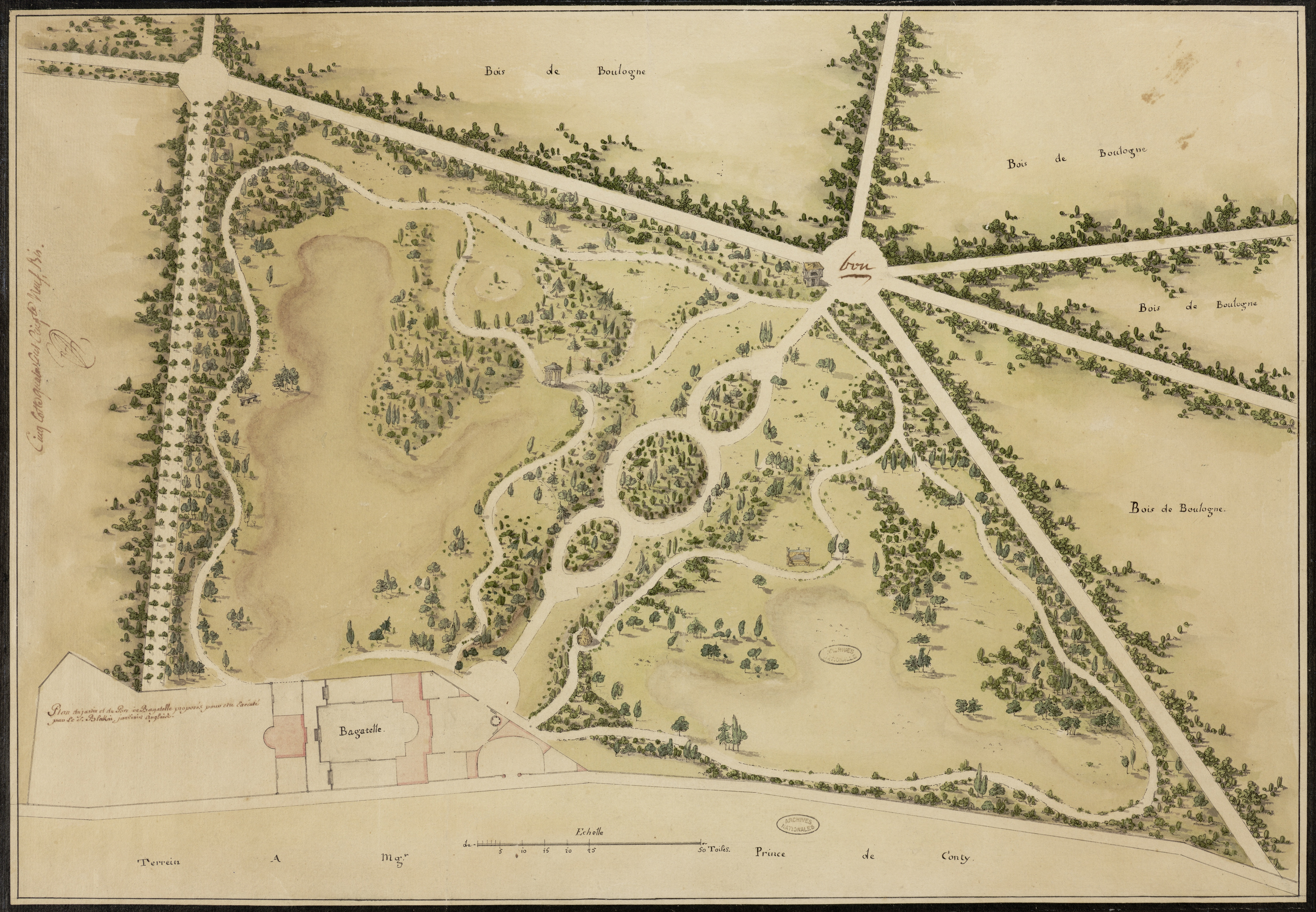 Map of the castel and garden of Bagatelle in Bois de Boulogne, by Thomas Blaikie